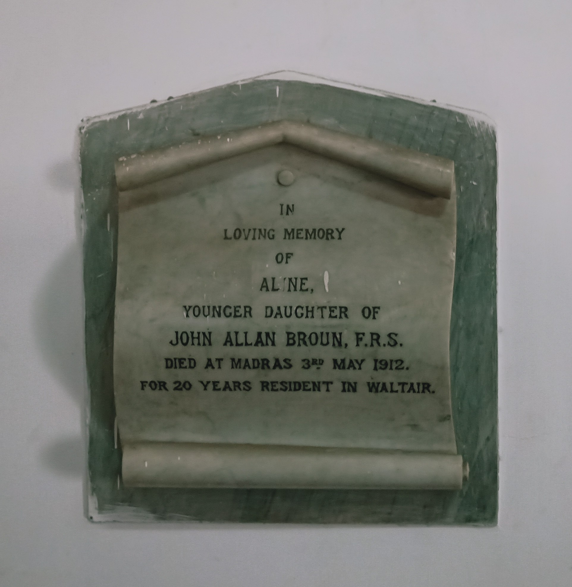 Memorial tablet to daughter of J A Broun, St Pauls church, Vishakapatnam